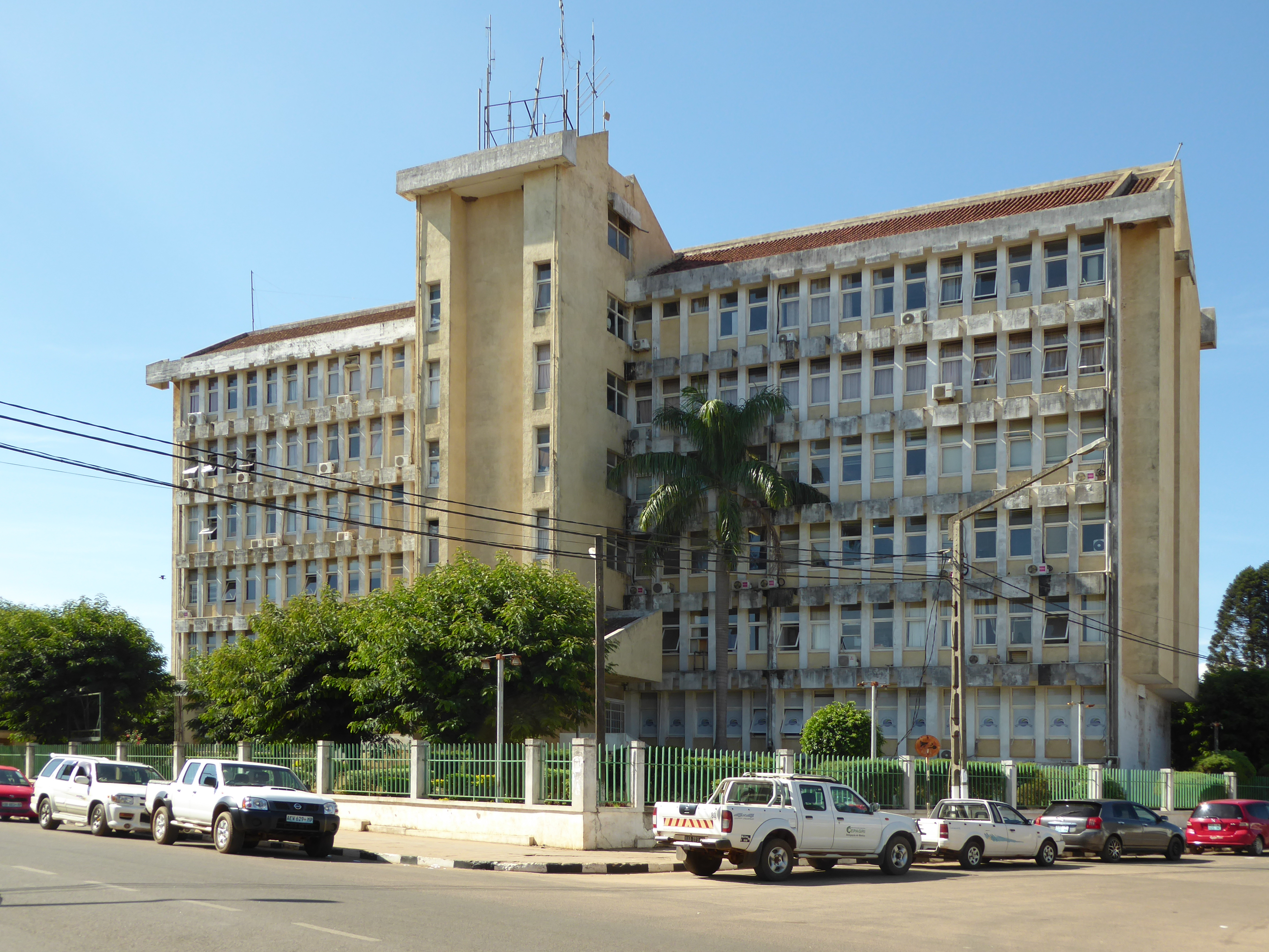 Seat of the Government of the Province of Manica, Chimoio, Mozambique